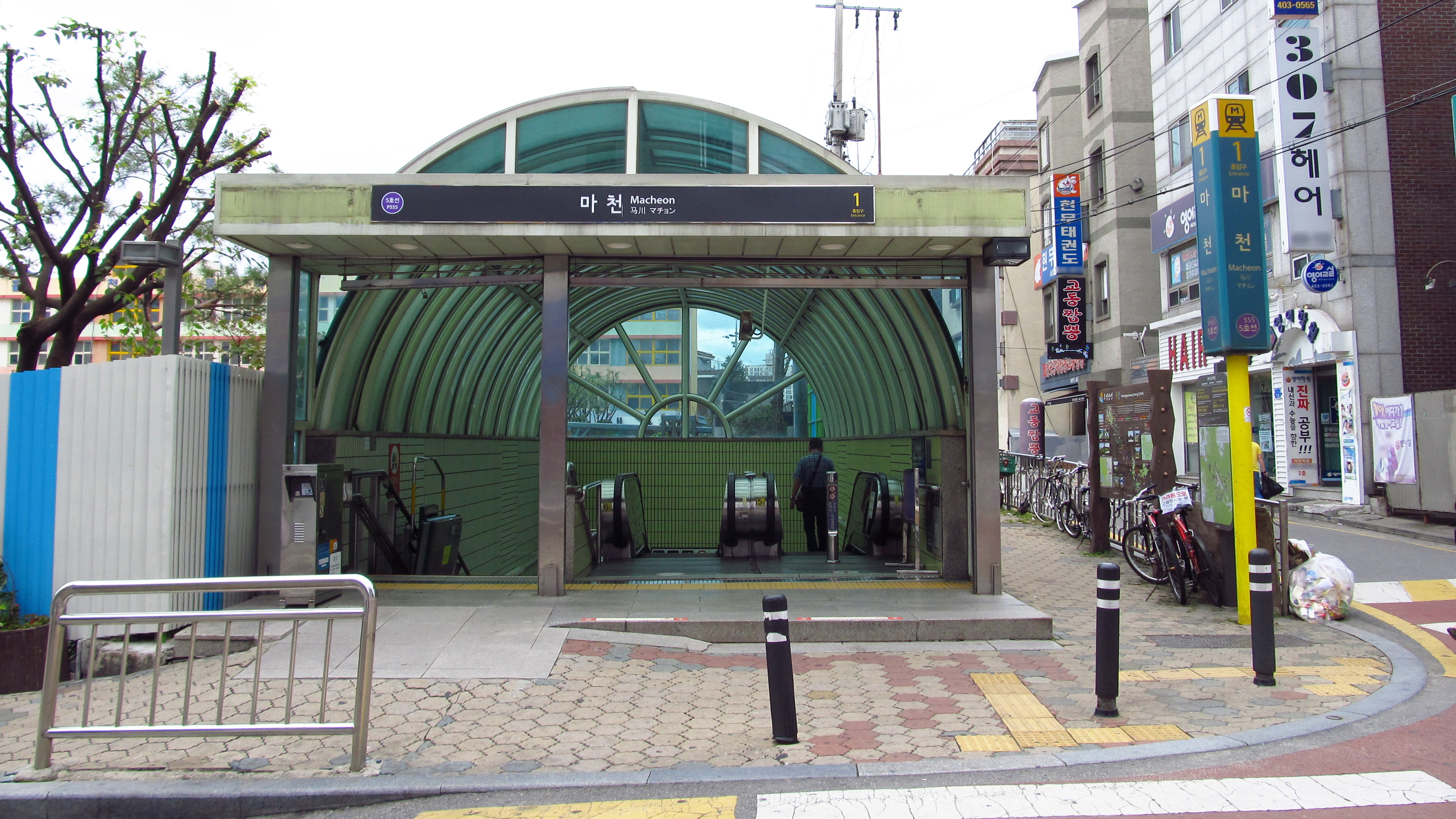 The no.1 entrance to Macheon Station on the Seoul Metro Line 5 in Songpa-gu, Seoul, Republic of Korea(South Korea)